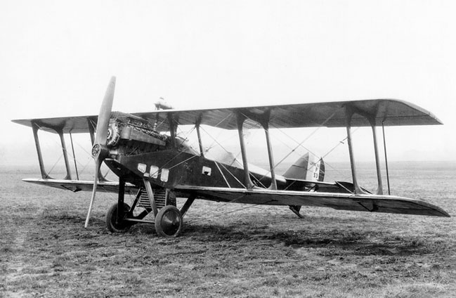 LT. J.A. MACREADY SET SOLO ALTITUDE RECORD OF 34,509 FEET WITH THIS PACKARD-LePERE LUSAC 11, SEPTEMBER 28, 1921. (LUSAC stands for Le Pere United States Army Combat)